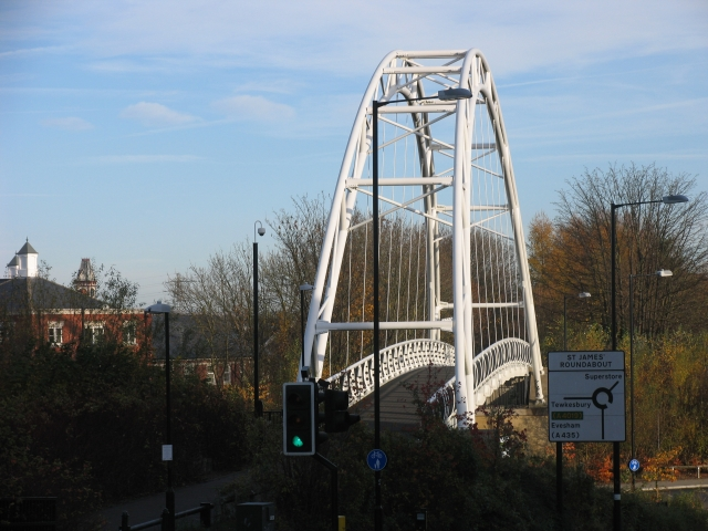 Honeybourne Line Cycle Path bridge, Cheltenham, Gloucestershire. The bridge was built to carry the cycle and footpath on the former Honeybourne railway line over the new road developed as part of the Waitrose supermarket development.